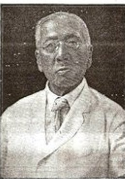 Buencamino